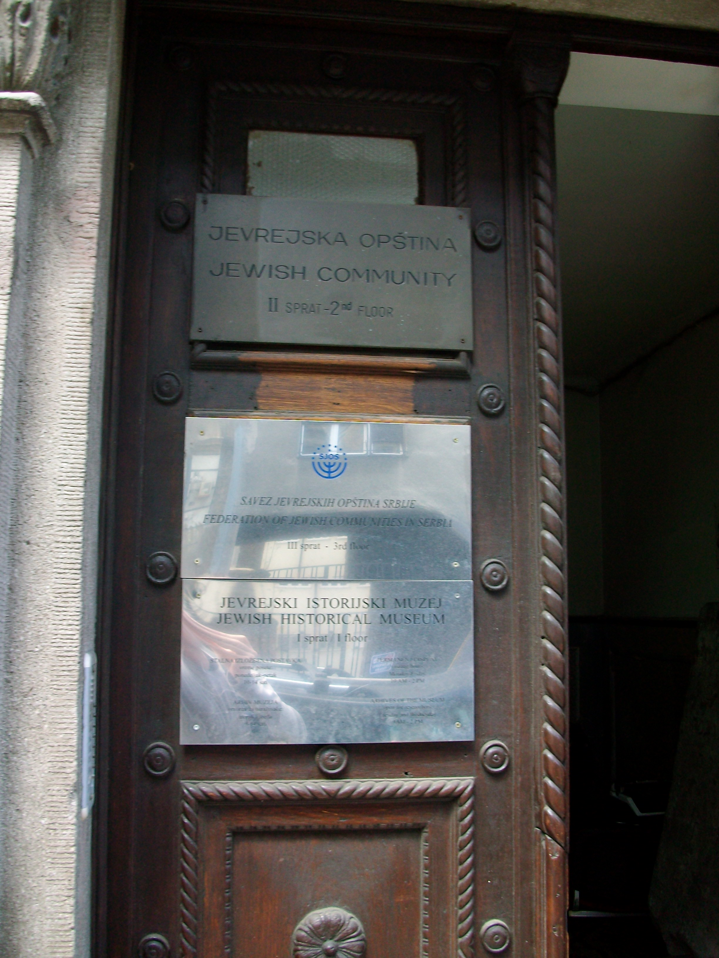 Front door of Jewish historical museum